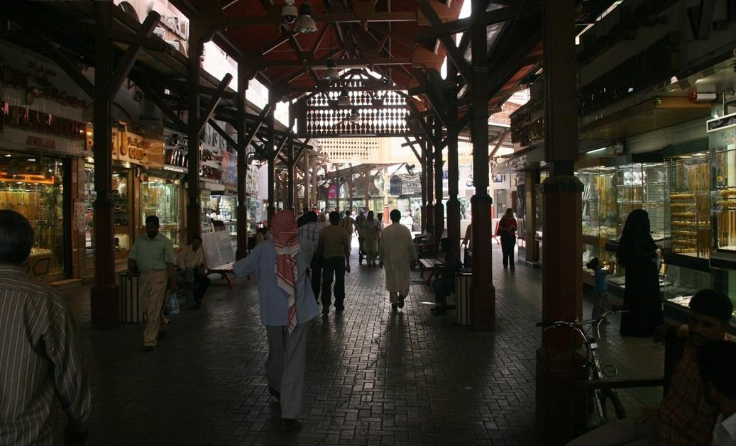 This is a photo of the Gold Souk in Deira, Dubai, United Arab Emirates on 9 May 2007.